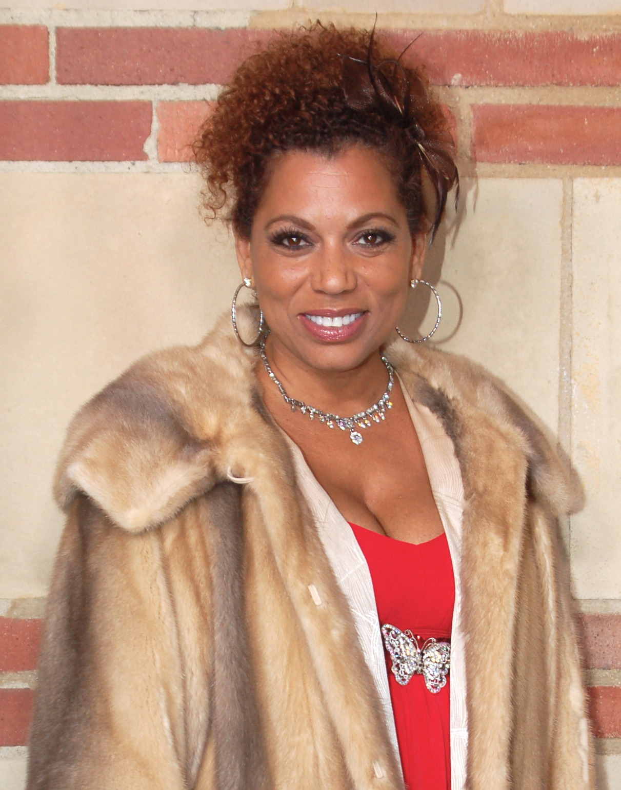 Rolonda Watts at a performance of The Hot Chocolate Nutcracker in December 2010.